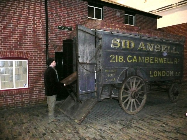 Milestones - Hampshire's living history museum. An original pantechnicon; a delivery vehicle that could be loaded onto a railway wagon, then off-loaded and horse drawn locally at the end of the journey. There are a number of pictures in this sequence, showing various exhibits in the living history museum. The next picture is here 663330